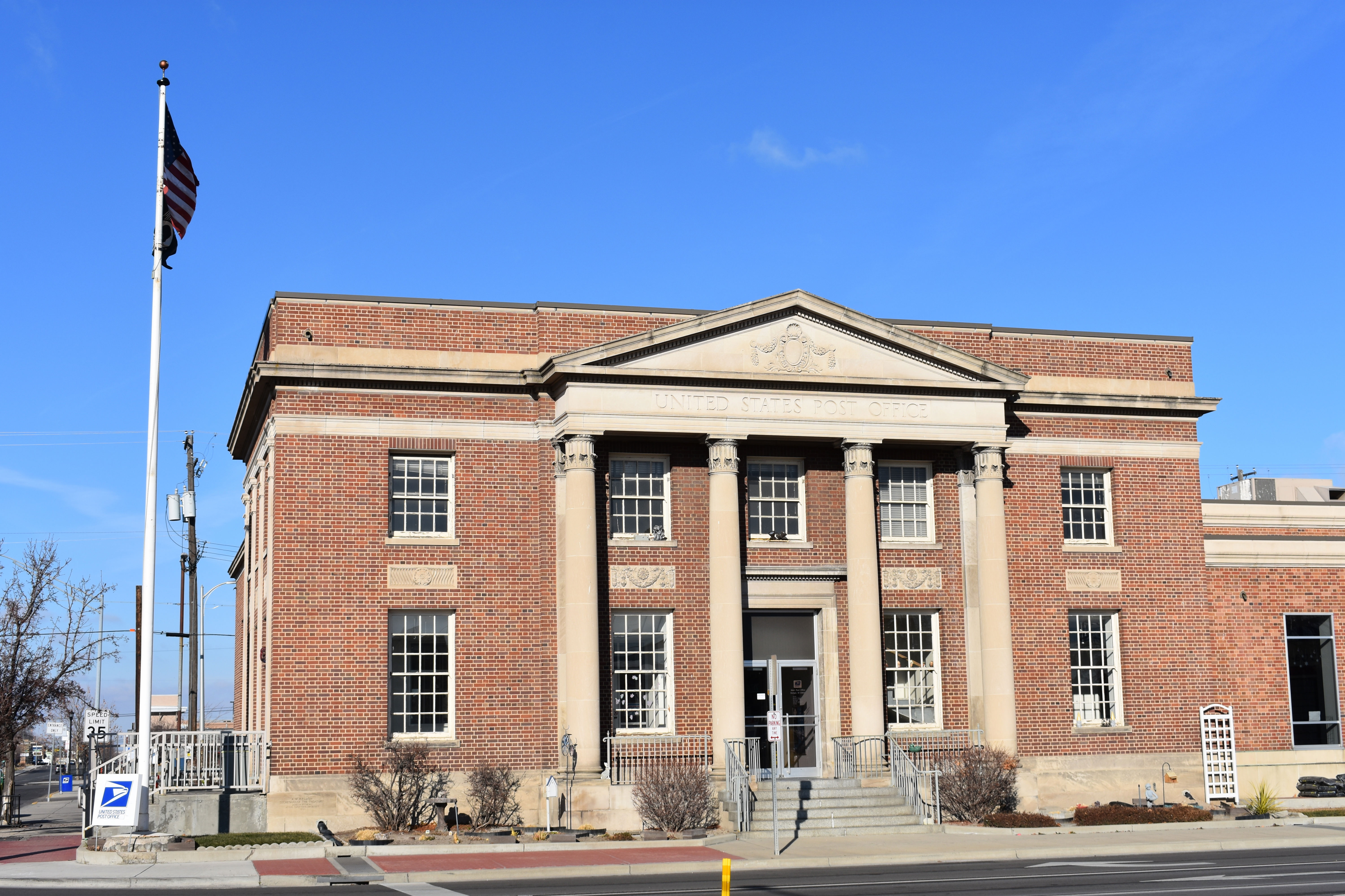 The main U.S. Post Office in Nampa, Idaho, is listed on the National Register of Historic Places.